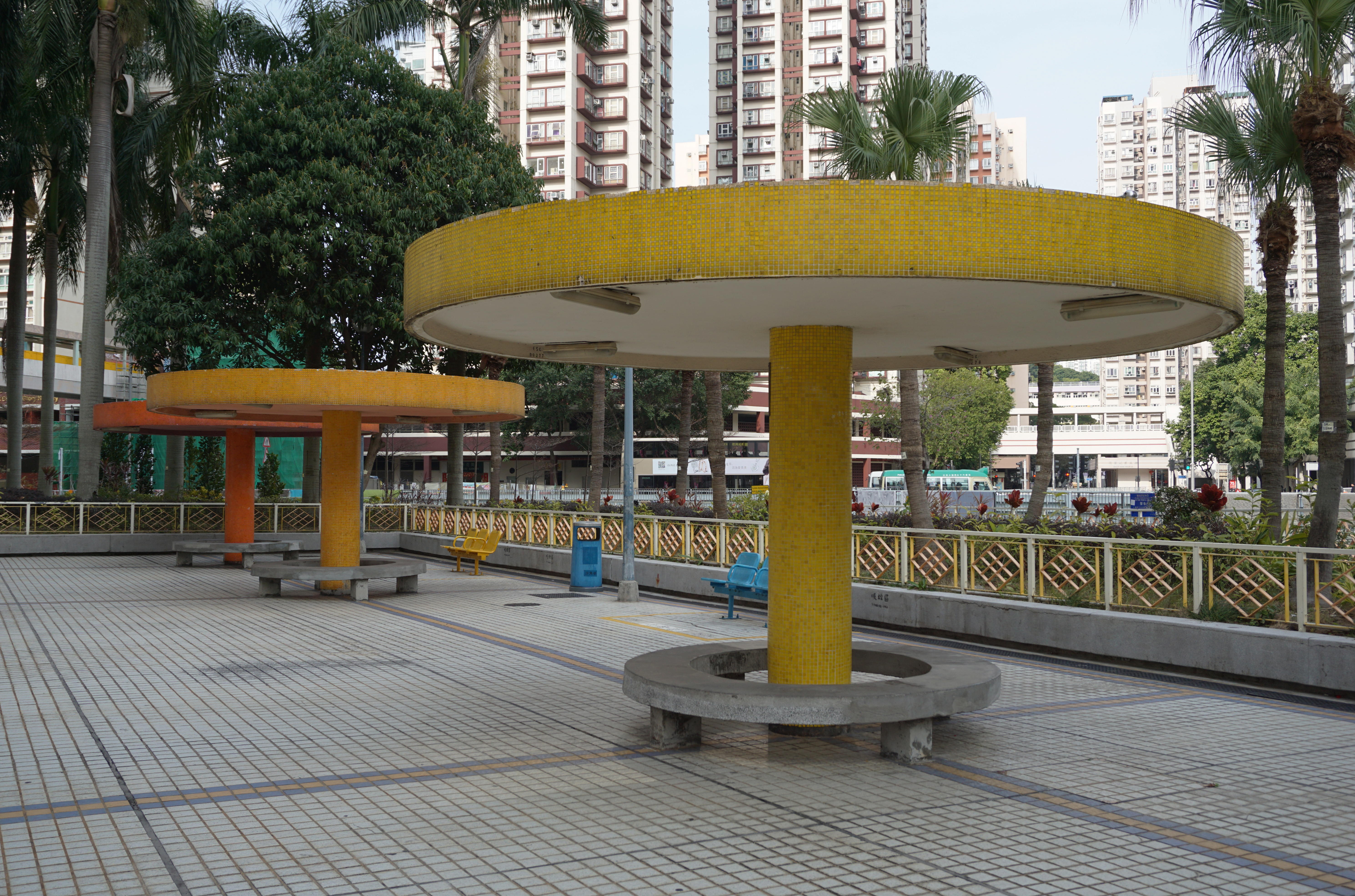 Sha Kok Estate in Sha Tin Wai, Hong Kong.